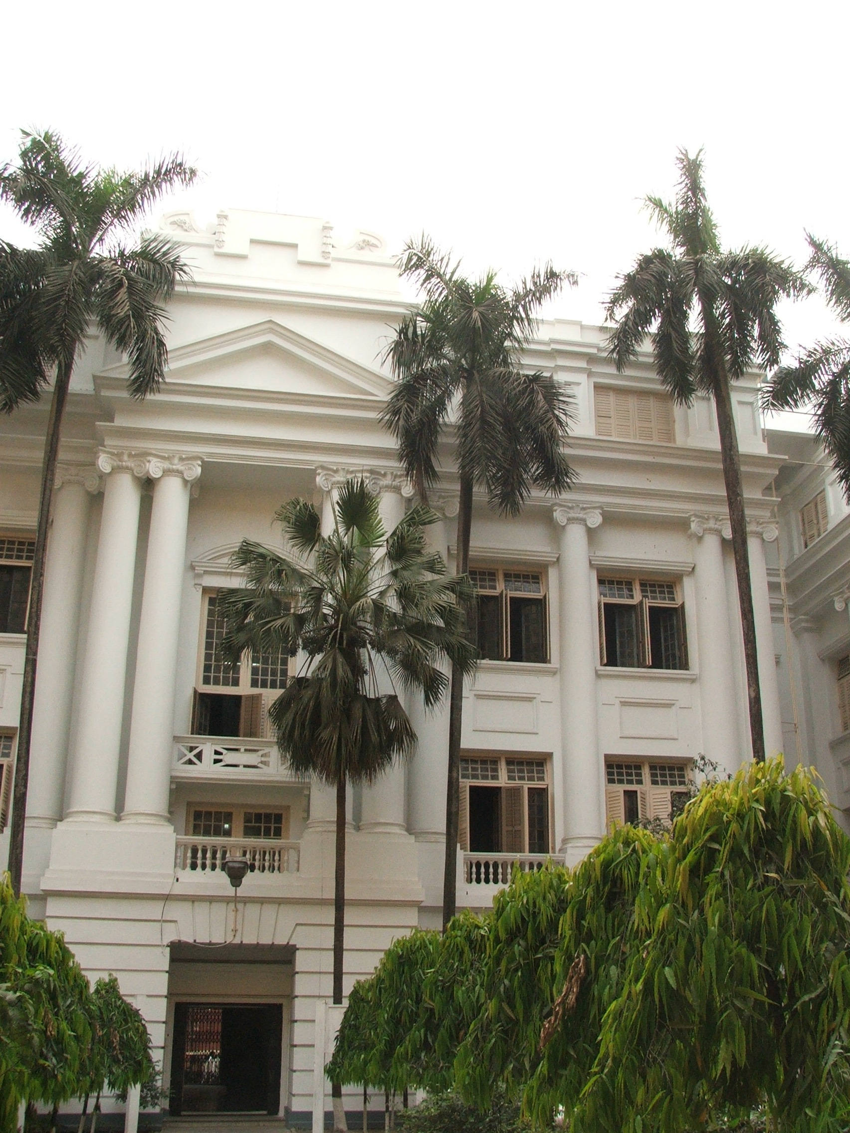 kolkata university, I took this photo on the summer of 2004